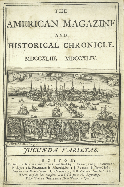 Image Title: [Boston.] Creator: Turner, James, d. 1759 -- Engraver. Additional Name(s): Burgis, William, fl. 1716-1731 -- Artist. Medium: Engravings. Specific Material Type: Prints. Item Physical Description: 1 print ; 7 x 11 cm. Notes: From American Magazine and Historical Chronicle, Boston, 1743-1744.